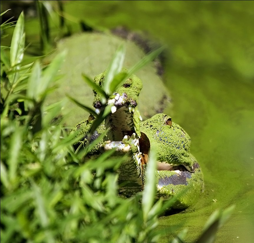 View On Black A gharial, accidentally camouflaged with floating weed. The gharial (Gavialis gangeticus), sometimes called the Indian gharial or gavial, is one of two surviving members of the family Gavialidae, a long-established group of crocodile-like reptiles with long, narrow jaws. The gharial is the second-longest of all living crocodilians: a large male can approach 6 meters in length. The species is critically endangered.